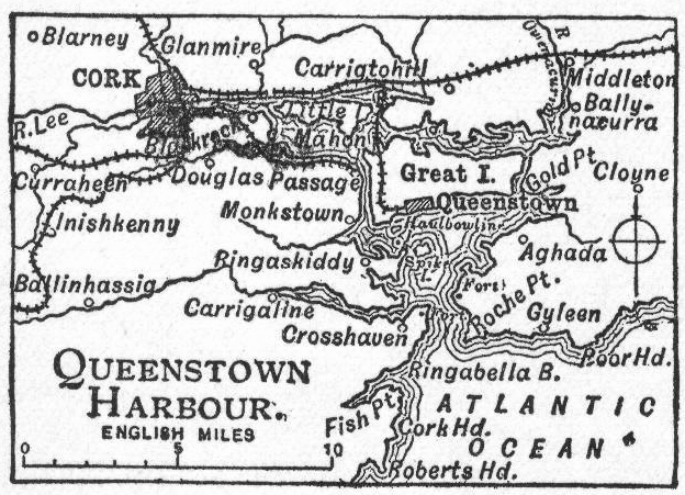 Queenstown Harbour